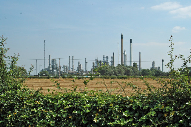 A view of Humber refinery looking south from Nicholson Road near North Killingholme, North Lincolnshire.